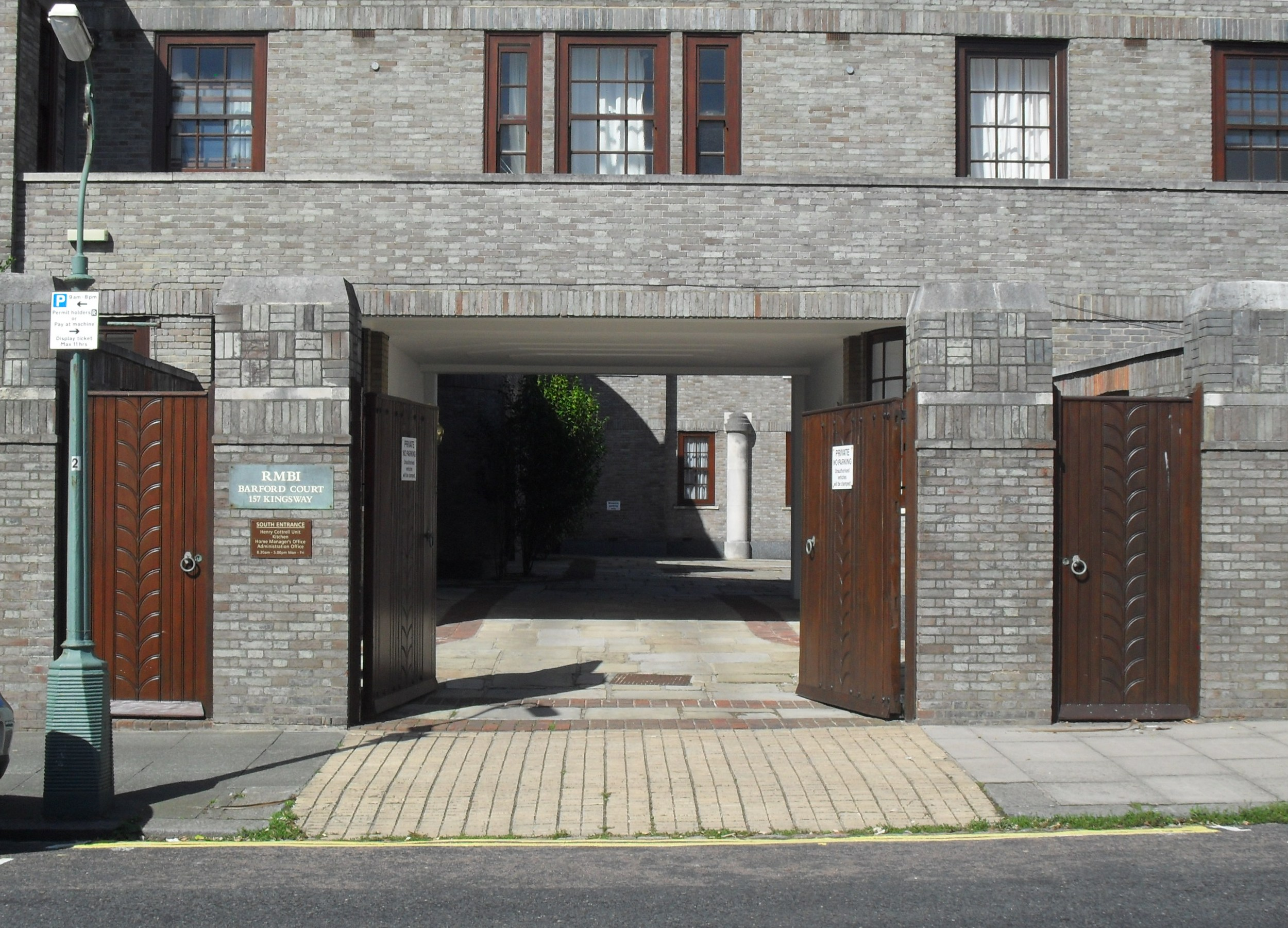 Entrance to Barford Court, Princes Crescent, Hove, City of Brighton and Hove, East Sussex. Built of specially made and imported Italian brick by cinema architect Robert Cromie as a private house for iron industry magnate Ian Stuart Millar. The Neo-Georgian building dates from 1934 and has an Art Deco interior. It is now a care home. Listed at Grade II by English Heritage (IoE Code 365555); the walls pictured here are listed separately at Grade II (IoE Code 365556)